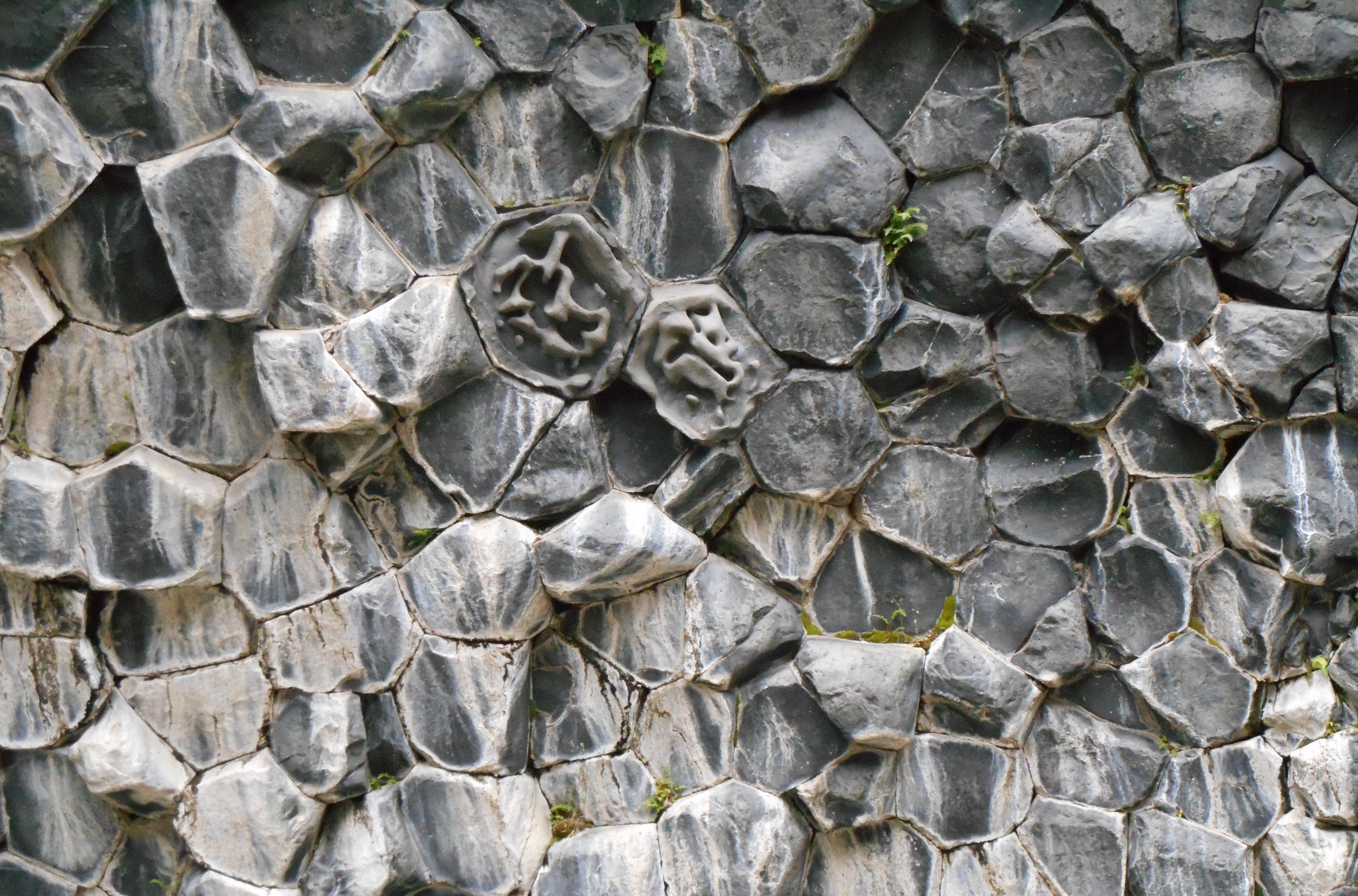 Hexagonal basalts are created during the abrupt cooling of basaltic lava. Vatnajokull National Park, Asbyrgi, Iceland.